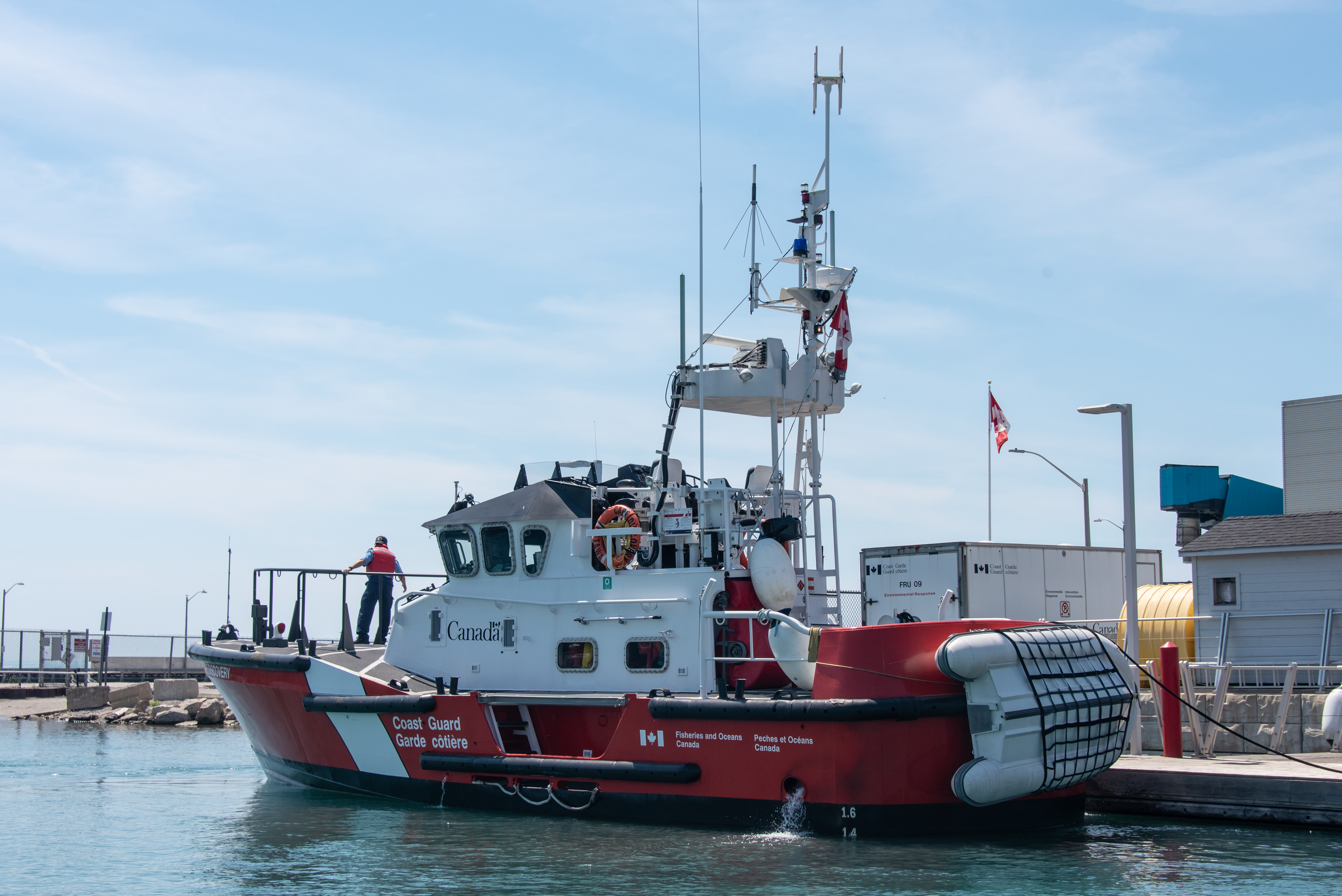 CCGS CAPE DISCOVERY 826714, of the Canadian Coast Guard Service at Goderich Harbor, Ontario, Canada on July 20, 2018.